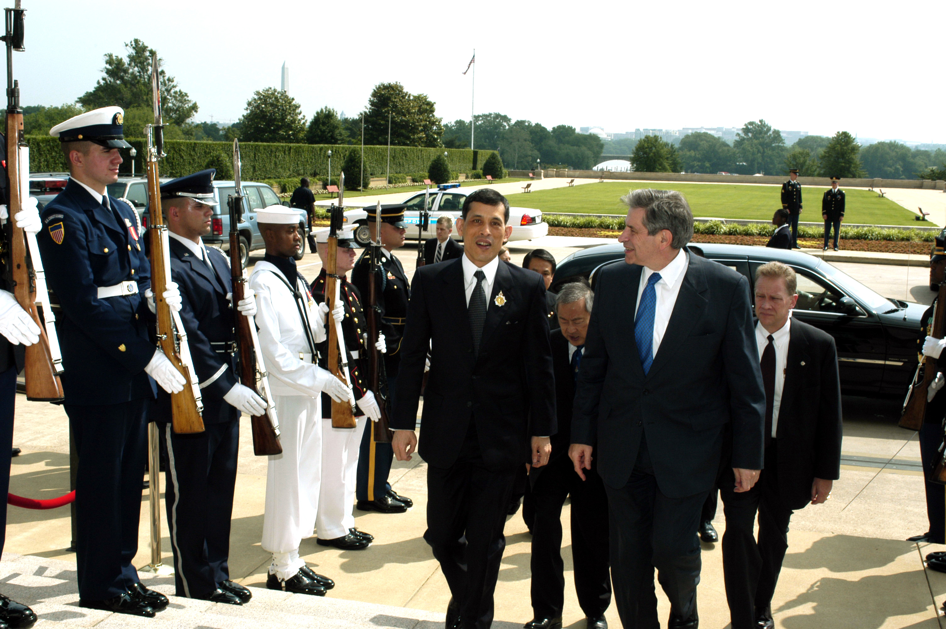 Deputy Secretary of Defense Paul Wolfowitz (right) escorts Thailand's Crown Prince Maha Vajiralongkorn through an honor cordon and into the Pentagon on June 12, 2003. Wolfowitz and the Prince will meet to discuss a range of bilateral security issues and the global war on terror.